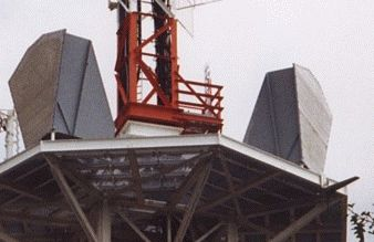 Microwave horn antennas, used for microwave relay links to transmit telephone calls and television broadcasts between nearby cities. This type of antenna is called a Hogg or horn-reflector antenna, invented by Albert Beck and Harald Friis in 1941 and developed by D. L. Hogg at Bell Telephone laboratories, USA in 1961. It consists of a vertical flaring metal horn with a reflector mounted in its mouth at an angle of 45° so the beam is emitted horizontally (the mouth of these antennas is covered by a plastic sheet to keep out rain). The reflector is a segment of a parabolic reflector, so the antenna is equivalent to a parabolic antenna fed off-axis. Its advantage over a standard parabolic dish antenna is that it has very low sidelobes (energy radiated at angles outside of the main beam). This allows microwave relay stations to reuse the the same frequencies in several different antennas pointed in different directions, without interfering with each other.